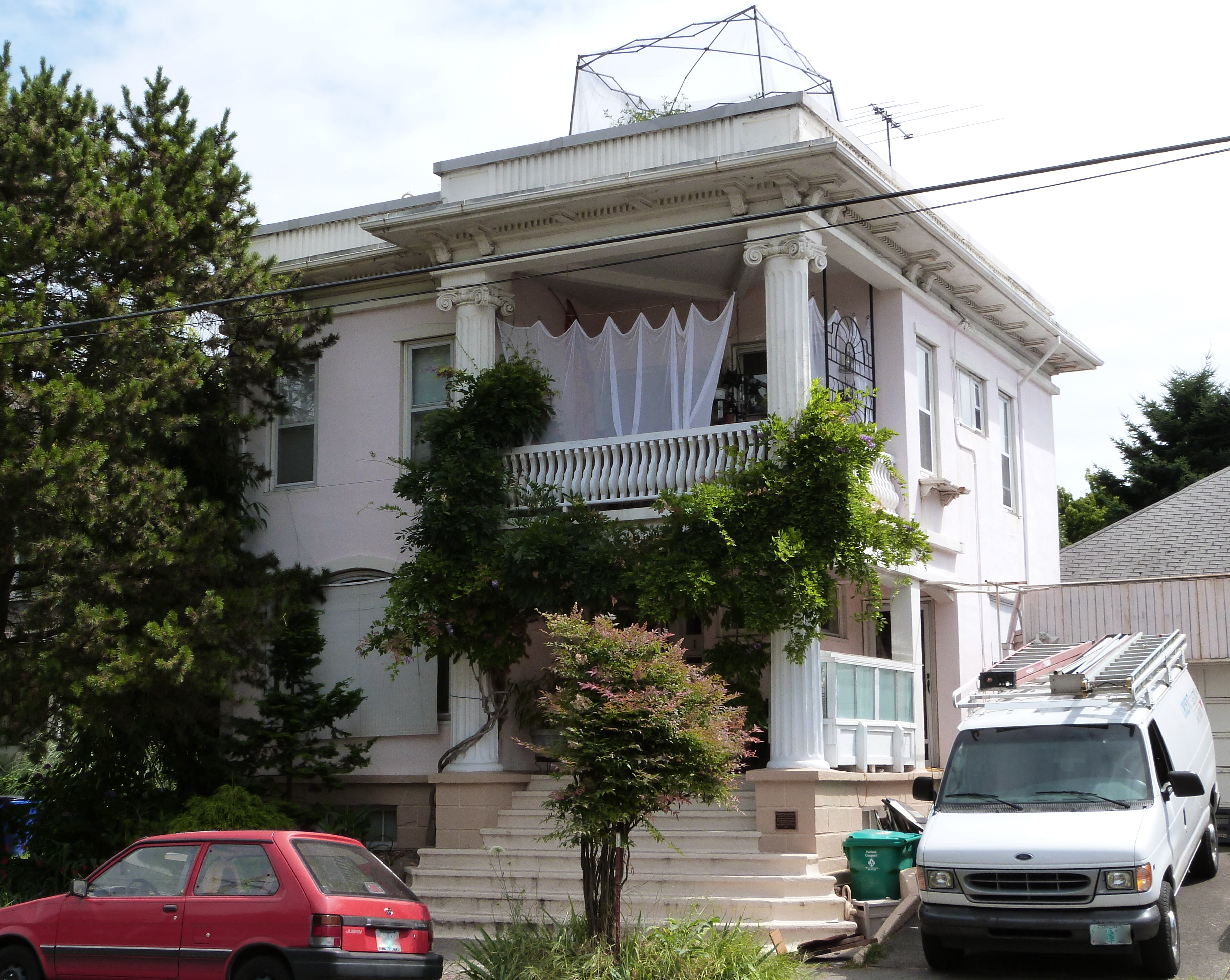 The George W. and Hetty A. Bowers House, located at 114 Northeast 22nd Avenue in Portland, Oregon, United States, is listed on the US National Register of Historic Places (NRHP).